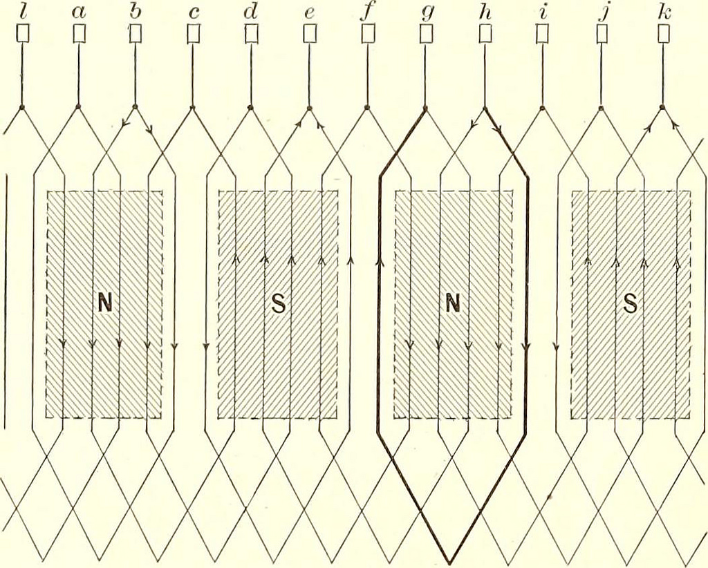 An example of a "developed diagram" of an electrical armature winding.